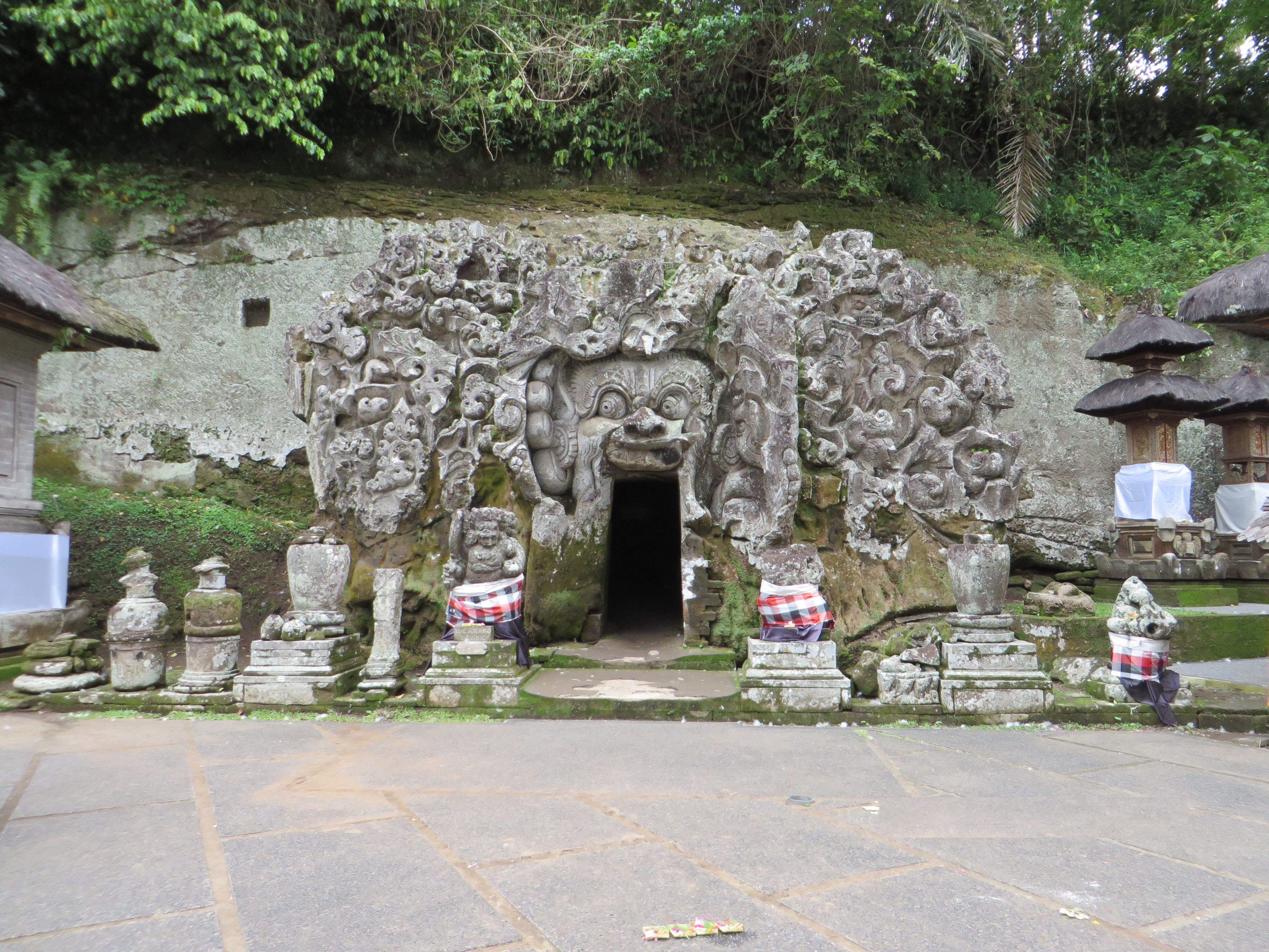 Pintu Masuk Goa Gajah